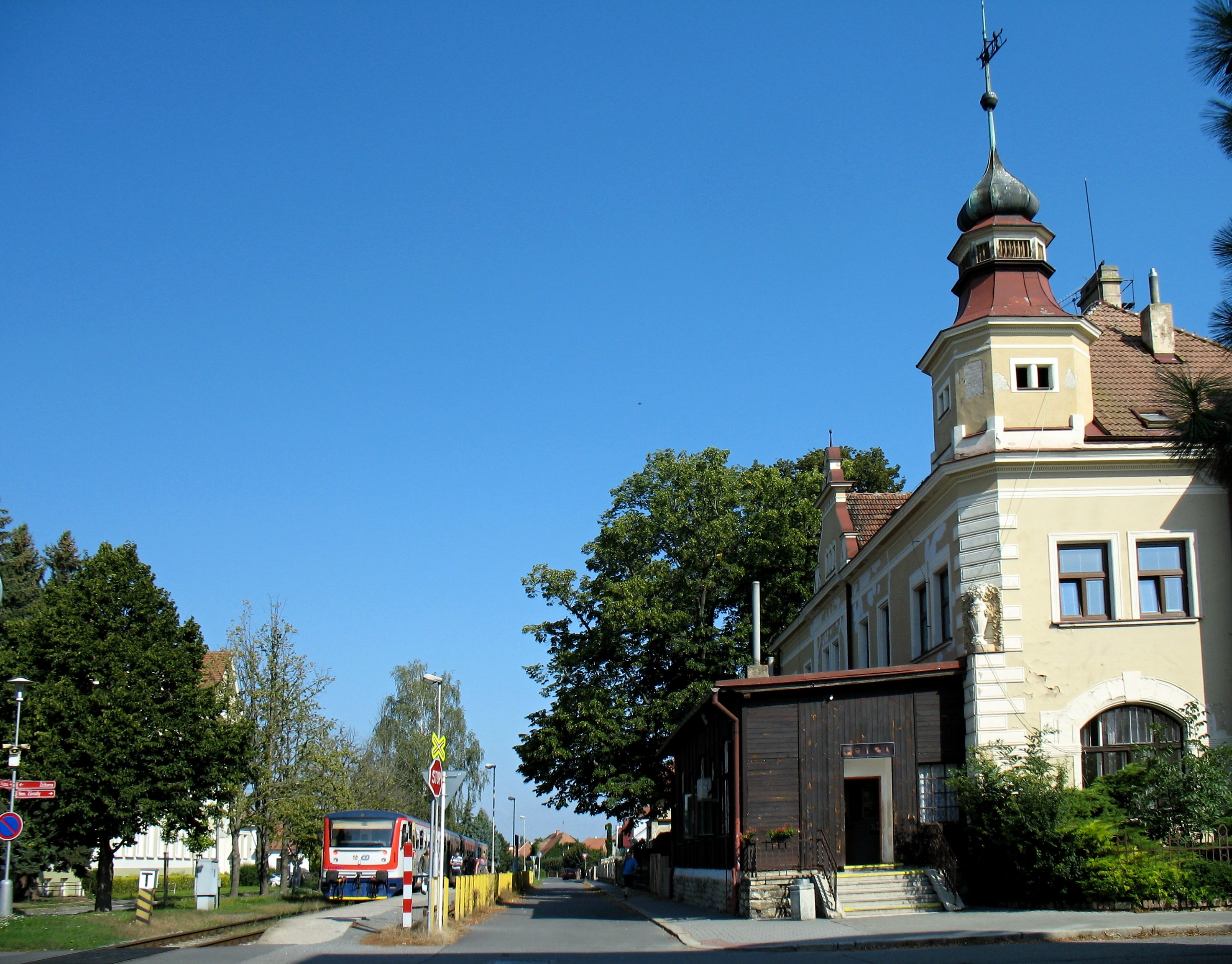 Train stop Vysoké Mýto město